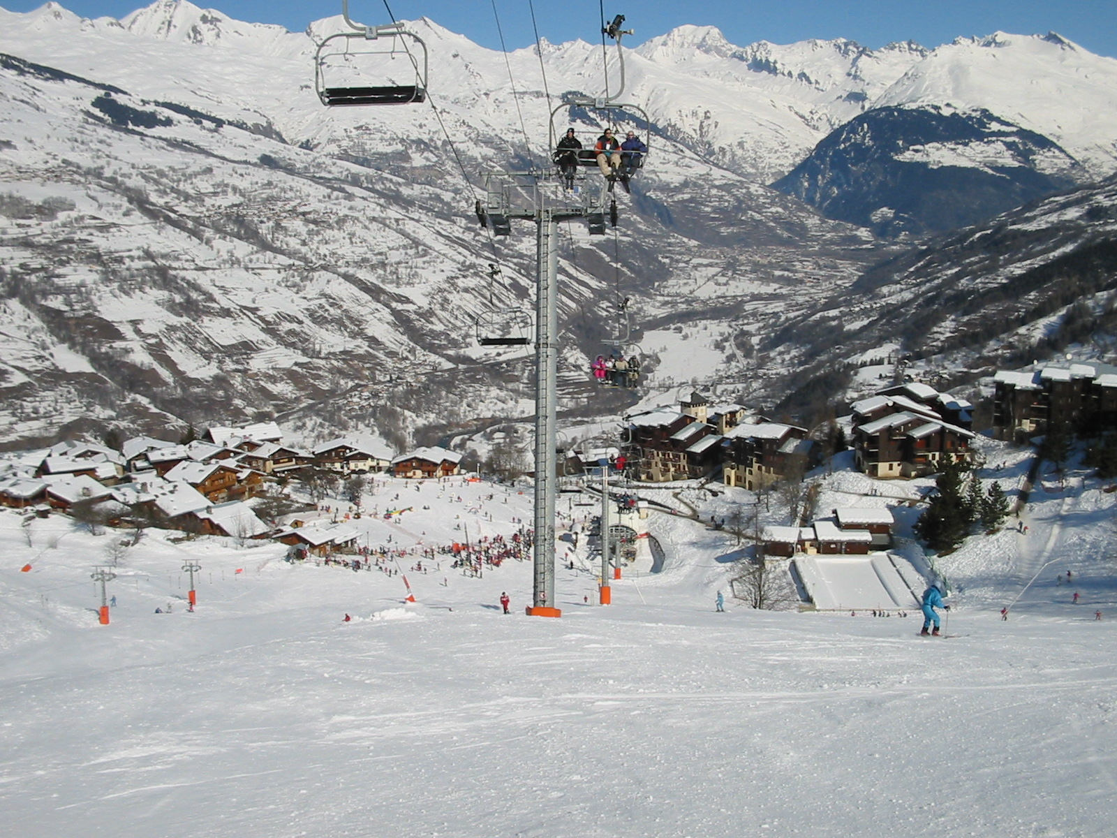 Montchavin, France